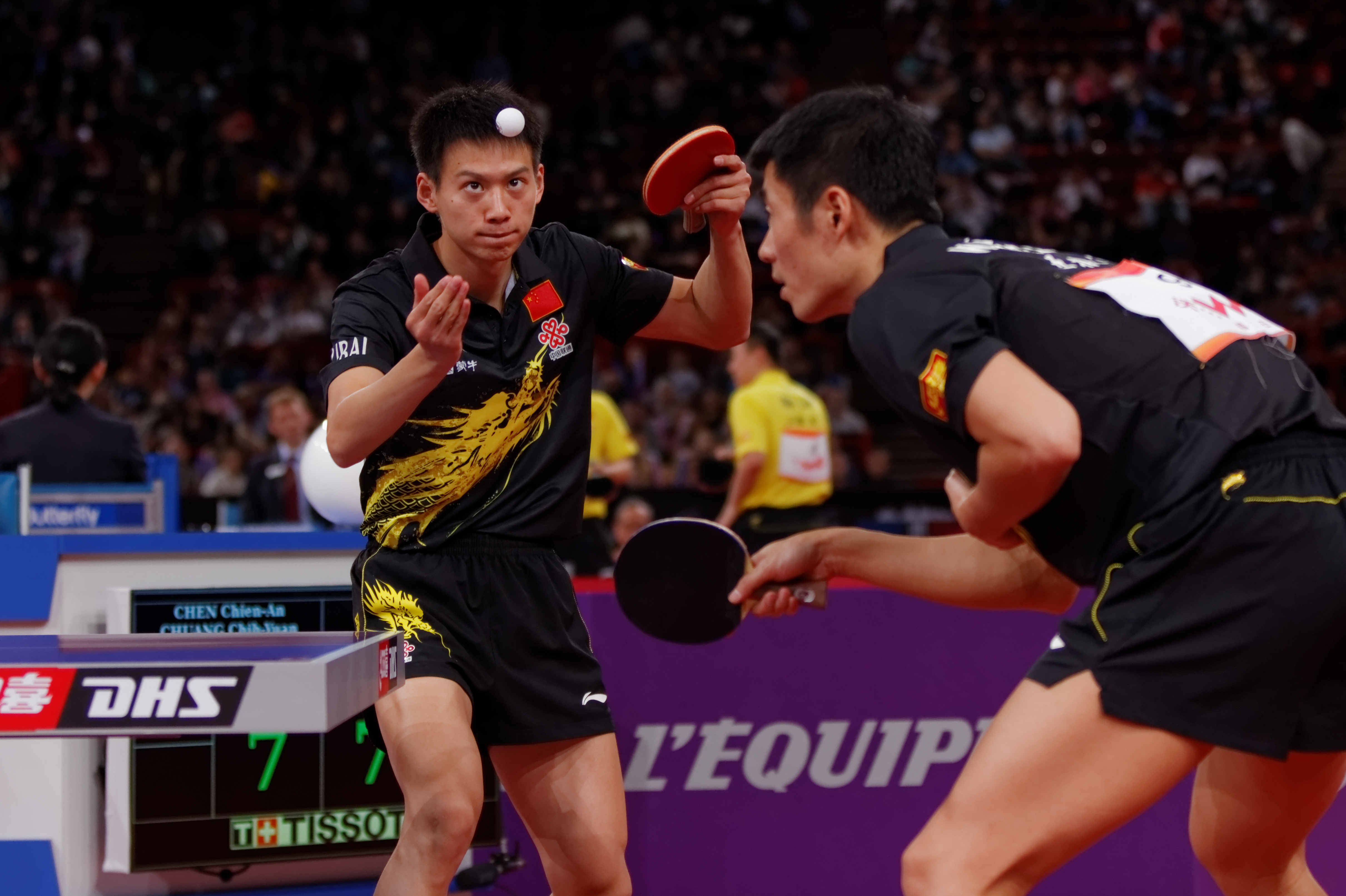 2013 World Table Tennis Championships, Paris. Men's Doubles Semifinals. Wang Liqin - Zhou Yu vs Chen Chien-an - Chuan Chih-yuan.